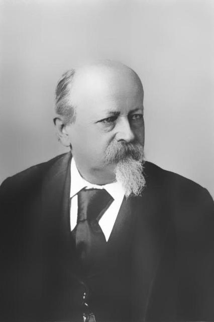 Carl August Theodor Ehrmann, Porträtfoto von C. W. (Catharine Weed) Barnes 1892